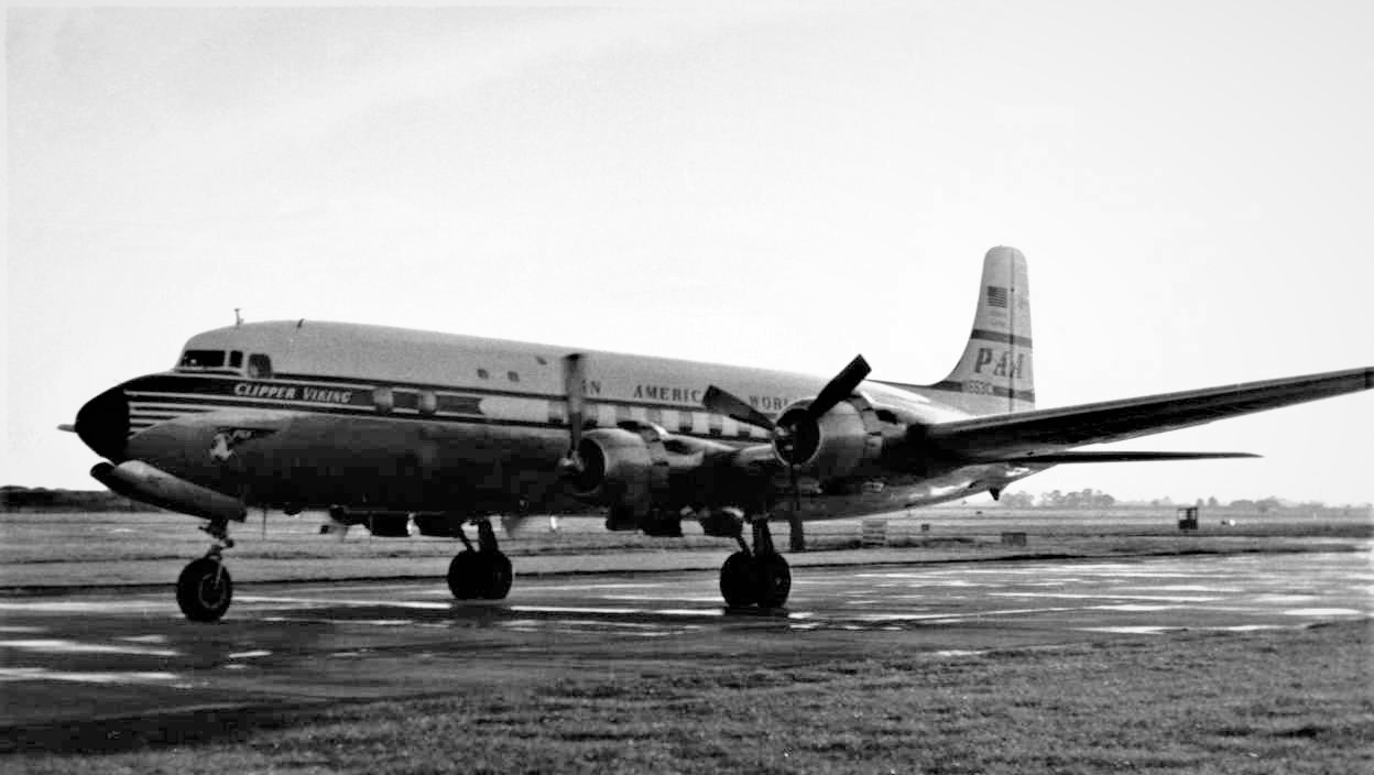 Douglas DC-6B N6531C "Clipper Viking" of Pan American arriving at Heathrow North